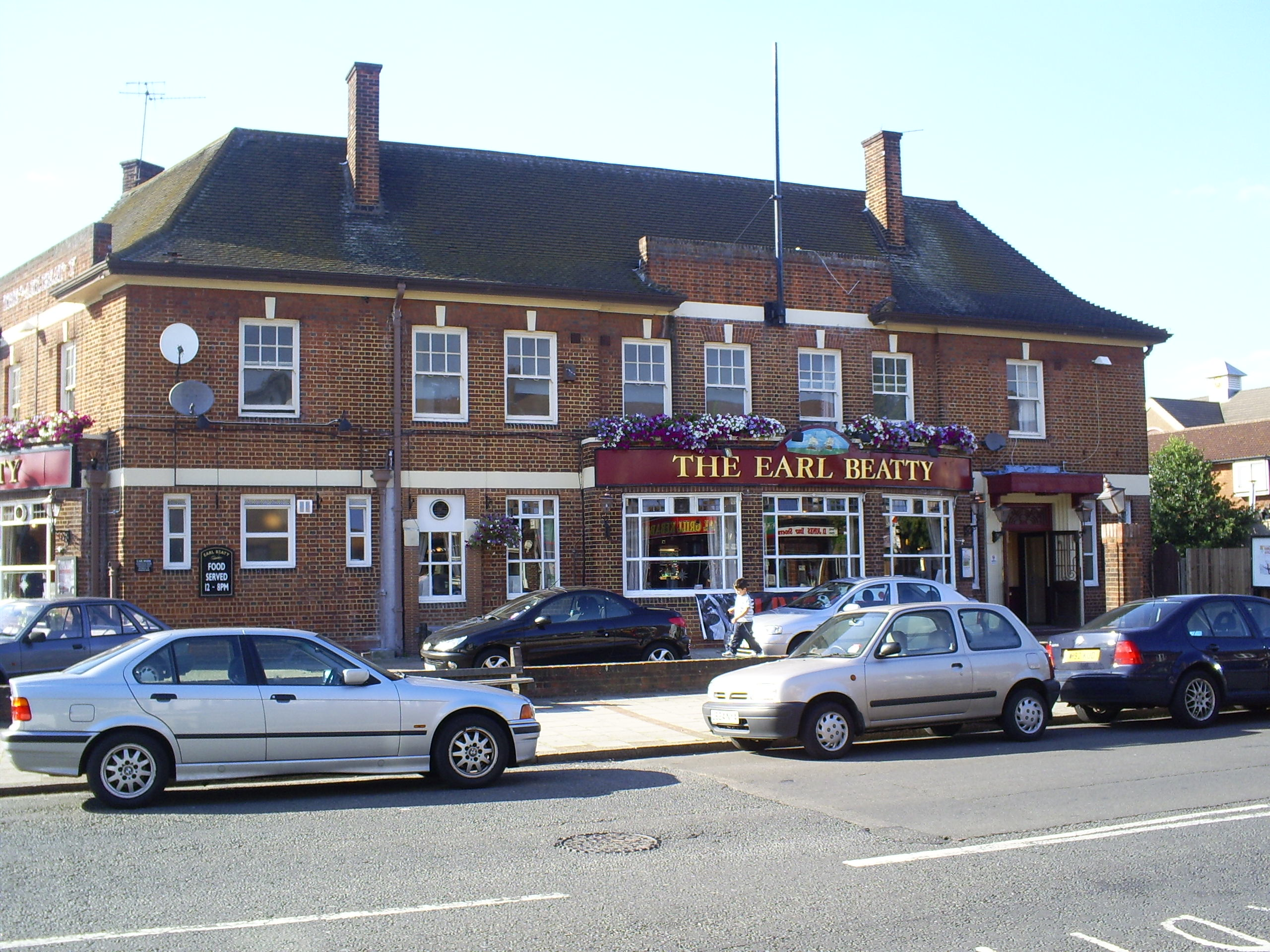 The Earl Beatty pub at Motspur Park in South West London.